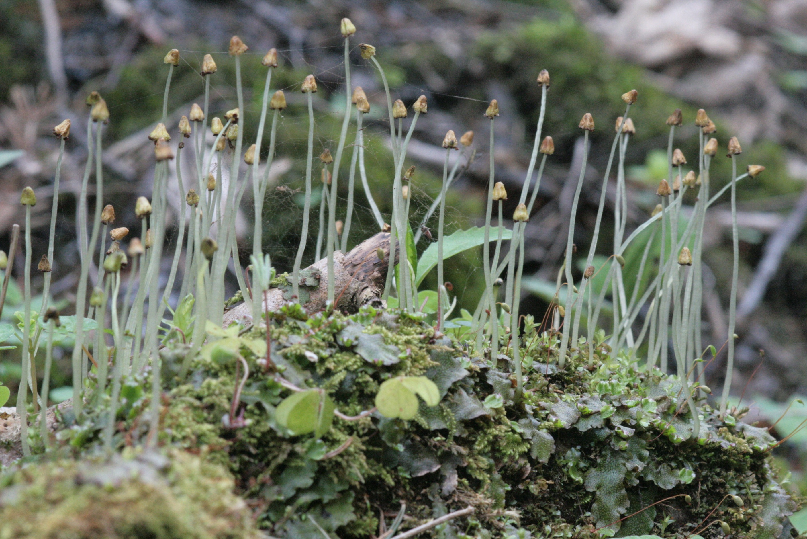 Conocephalum conicum